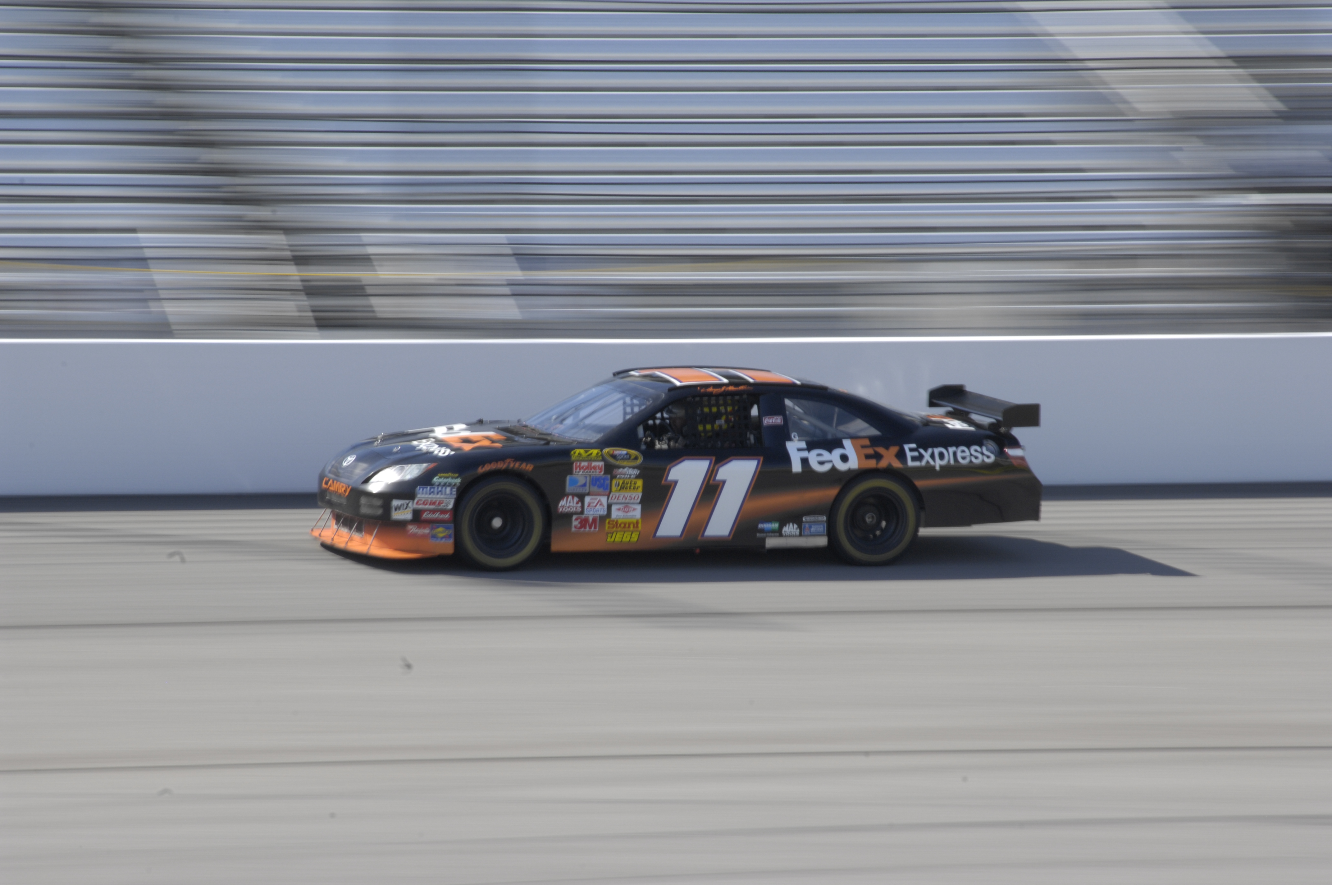 Denny Hamlin's 11 Fed Ex car.